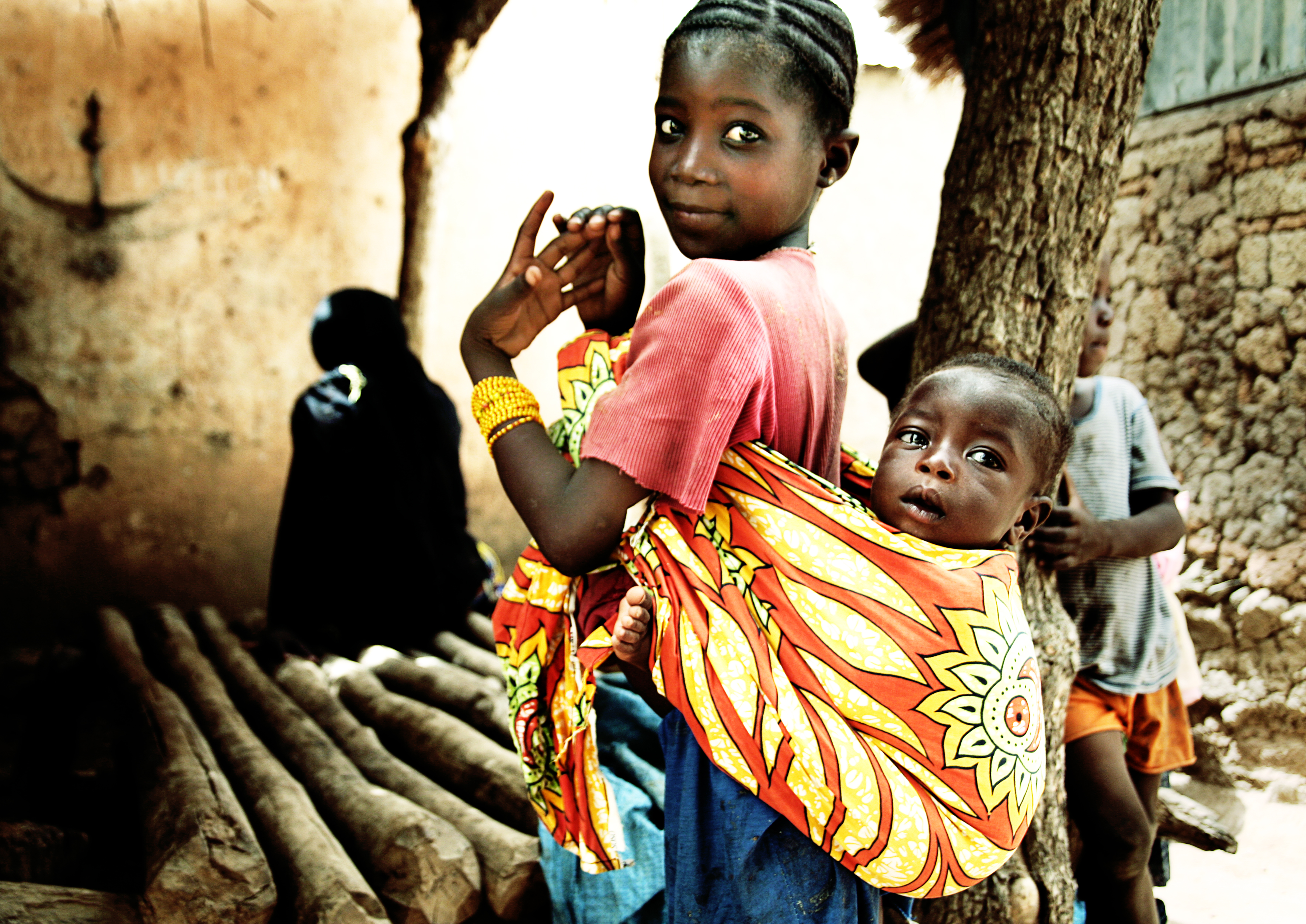 Girl takes care of her smaller sibling in Mali, West Africa.